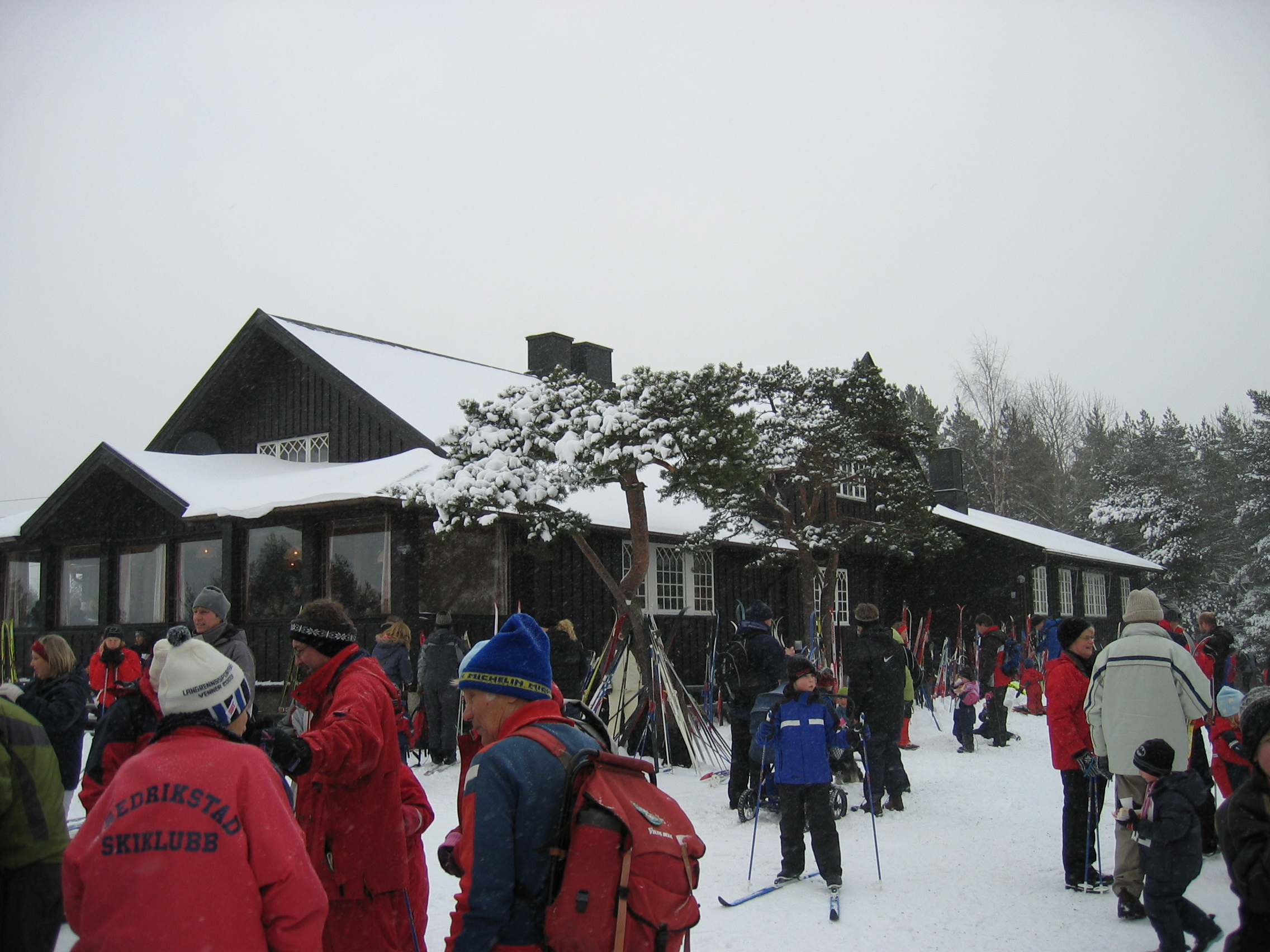 Fredrikstad Ski Club's Lodge near Fredrikstad, Norway. Picture by PerPlex January 22.nd, 2006.